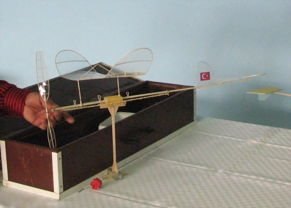 F1G Model Airplane